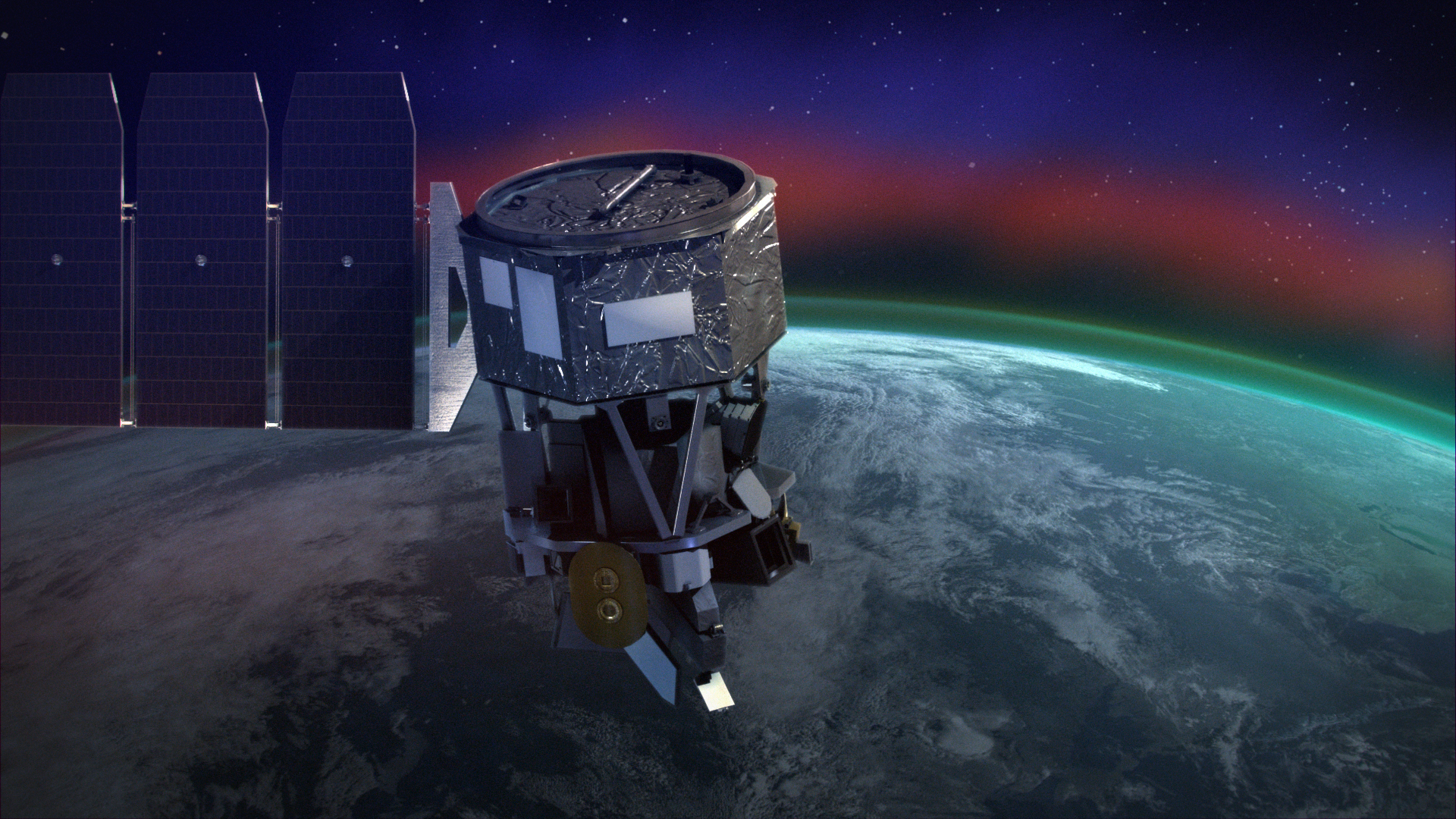 Charged particles in Earth’s atmosphere – which make up the ionosphere – create bands of color above Earth’s surface, known as airglow. ICON, depicted in this artist’s concept, will study the ionosphere from a height of about 350 miles to understand how the combined effects of terrestrial weather and space weather influence this ionized layer of particles.